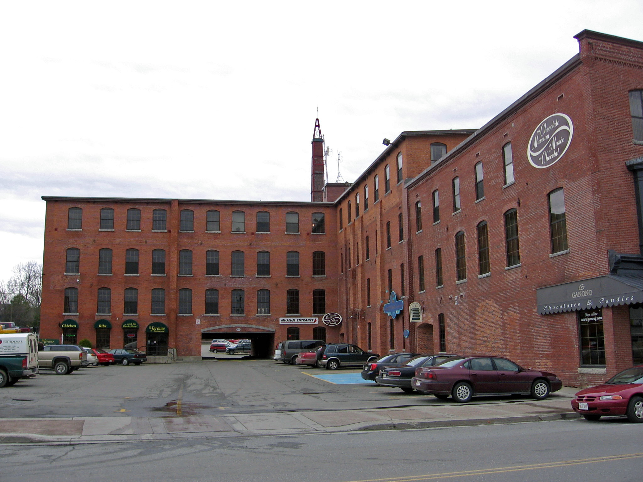 My picture from March 2006.